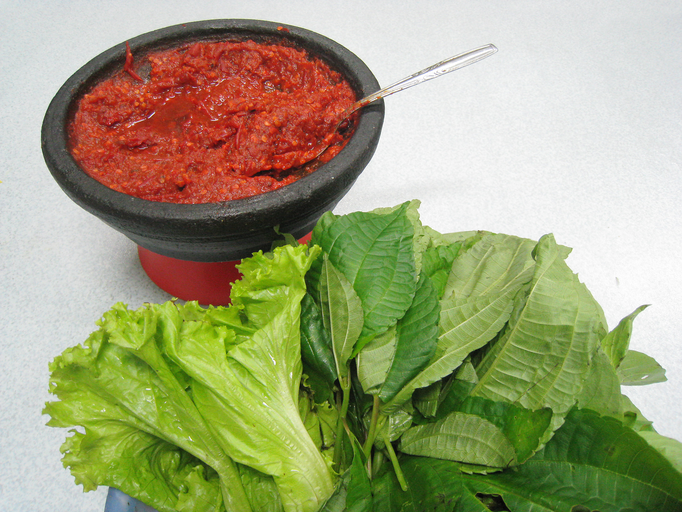 Sambal Lalab, sambal terasi is Indonesian hot and spicy chilli sauce with shrimp paste, in Sundanese cuisine often served with Lalab (raw vegetables). Ampera Sundanese restaurant, Indonesia.